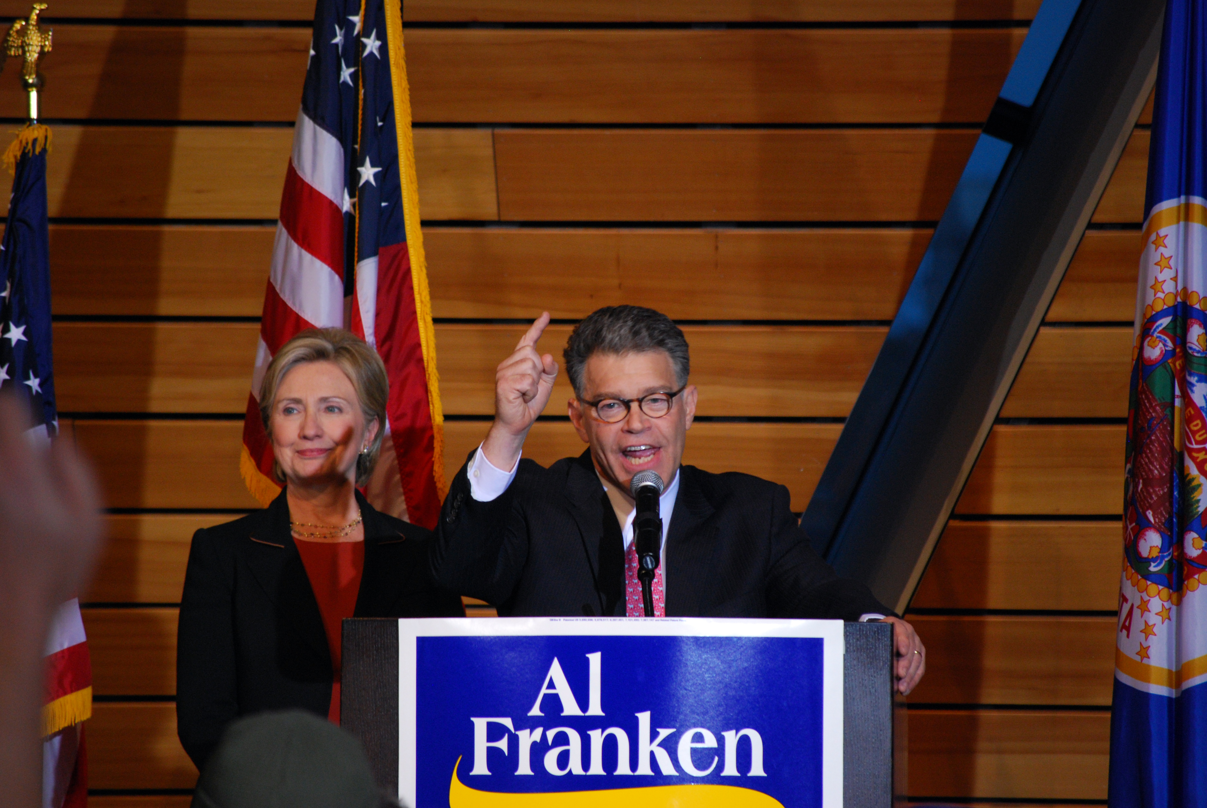 MN: Sen. Hillary Clinton joins Minnesota Senatorial candidate Al Franken at an election rally, October 21, 2008, in St. Paul, MN. (photo by Shawn T. Perry)